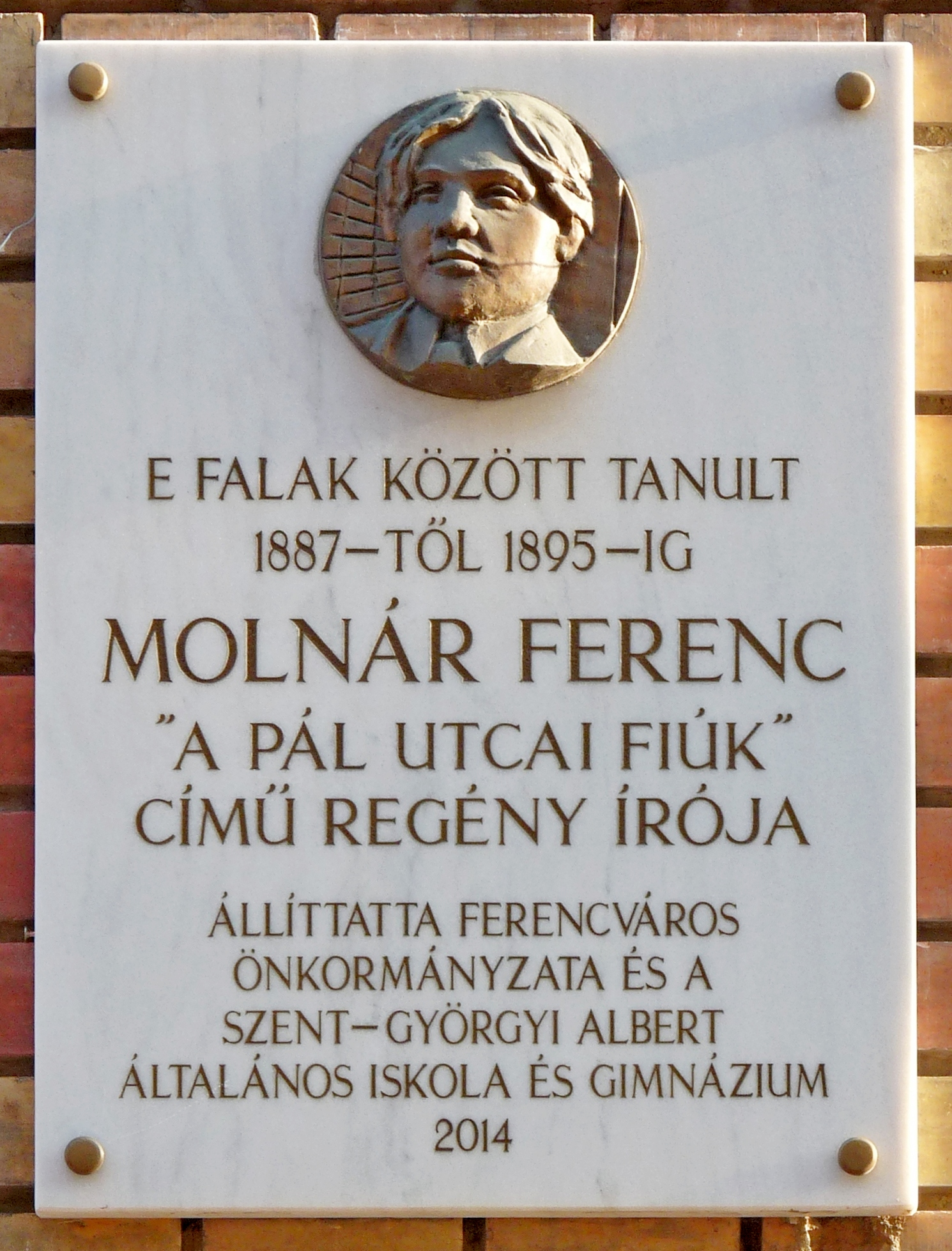 Plaque commemorative to Mr. Ferenc Molnár (1878-1952) Hungarian writer and journalist, the author of the novel "The Paul Street Boys". It is affixed on the wall of the primary school where the novelist was a student from 1887 to 1895. The plate with the bronze relief by the artist Johanna Götz was unveiled on September 30, 2014. (Budapest, District IX, Lónyay Street Nr 4)